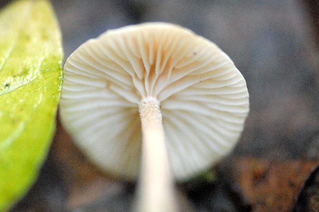 Hemimycena cucullata from Commanster, Belgium. If you think this is a different taxon, please contact James Lindsey.